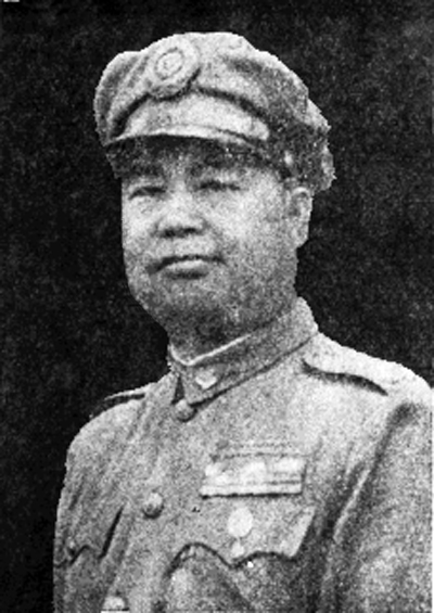 Guan Linzheng (Kuan Lin-cheng) (1905 - 1980)